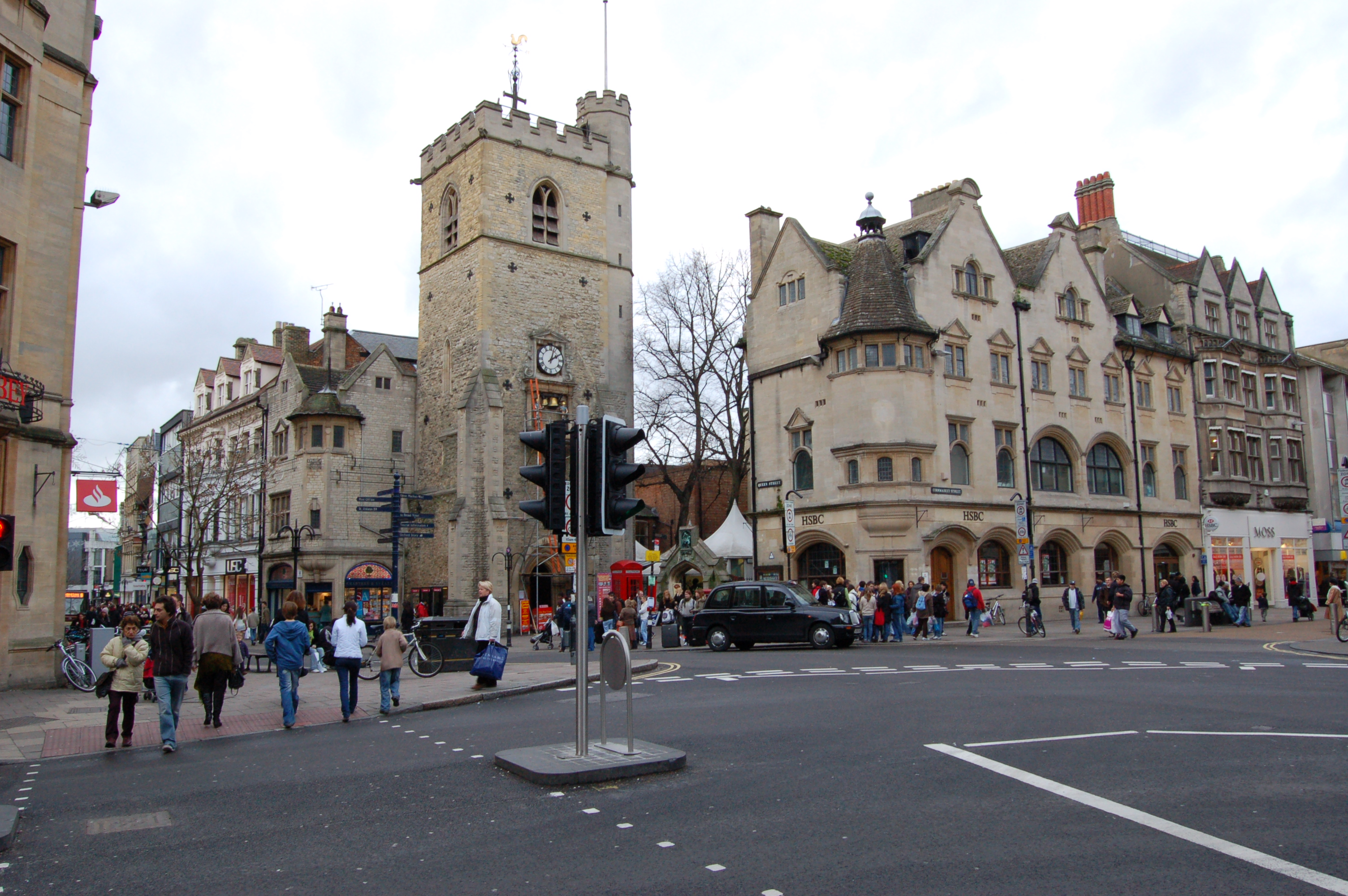 St Martins' Tower (centre) and the HSBC Bank (right), Carfax, Oxford